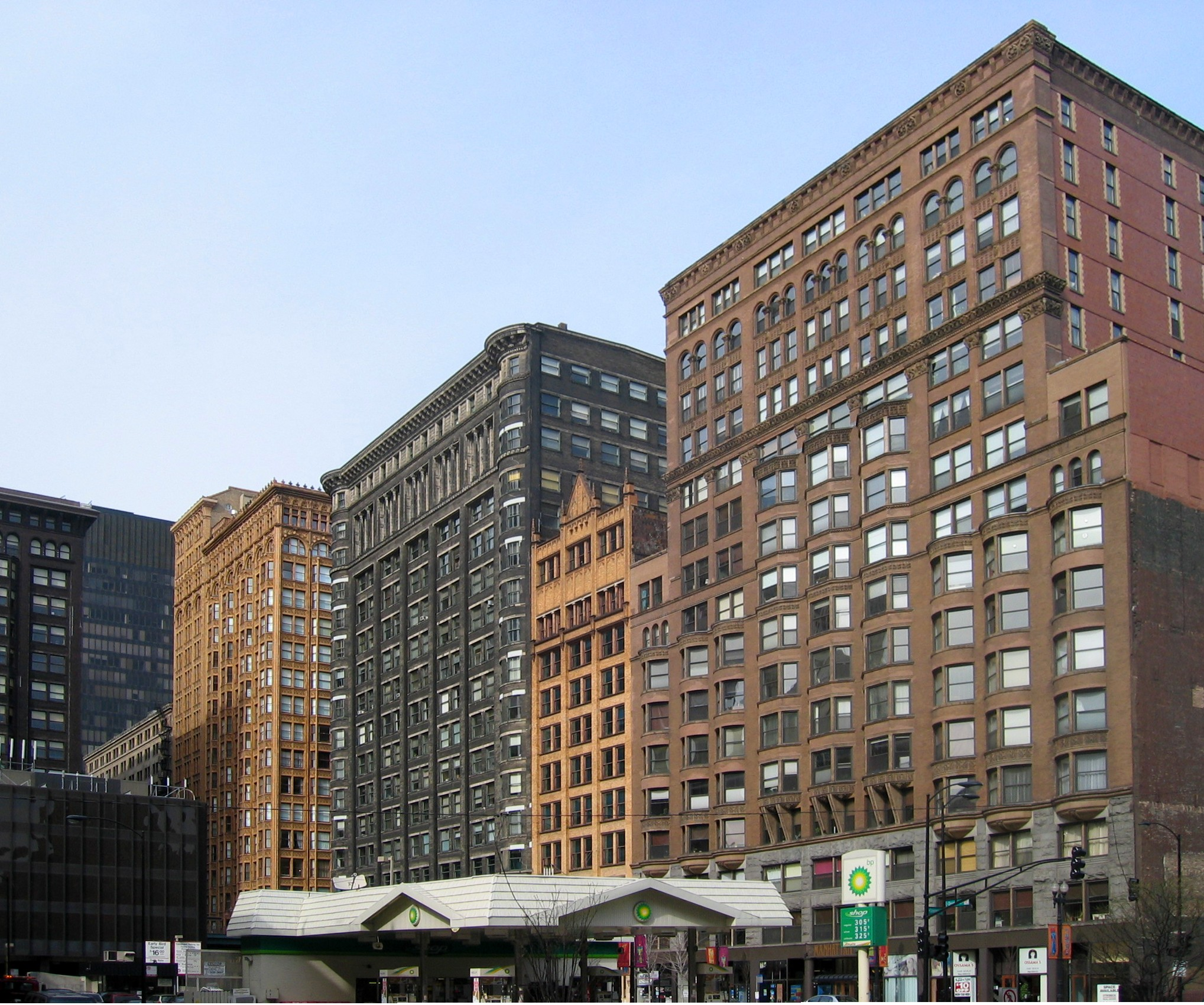 South Dearborn Street, Chicago, Illinois. Showing (right to left) the Manhattan Building, Plymouth Building, the Old Colony Building, and the Fisher Building. The Monadnock Block is just visible in the far left of the photograph.